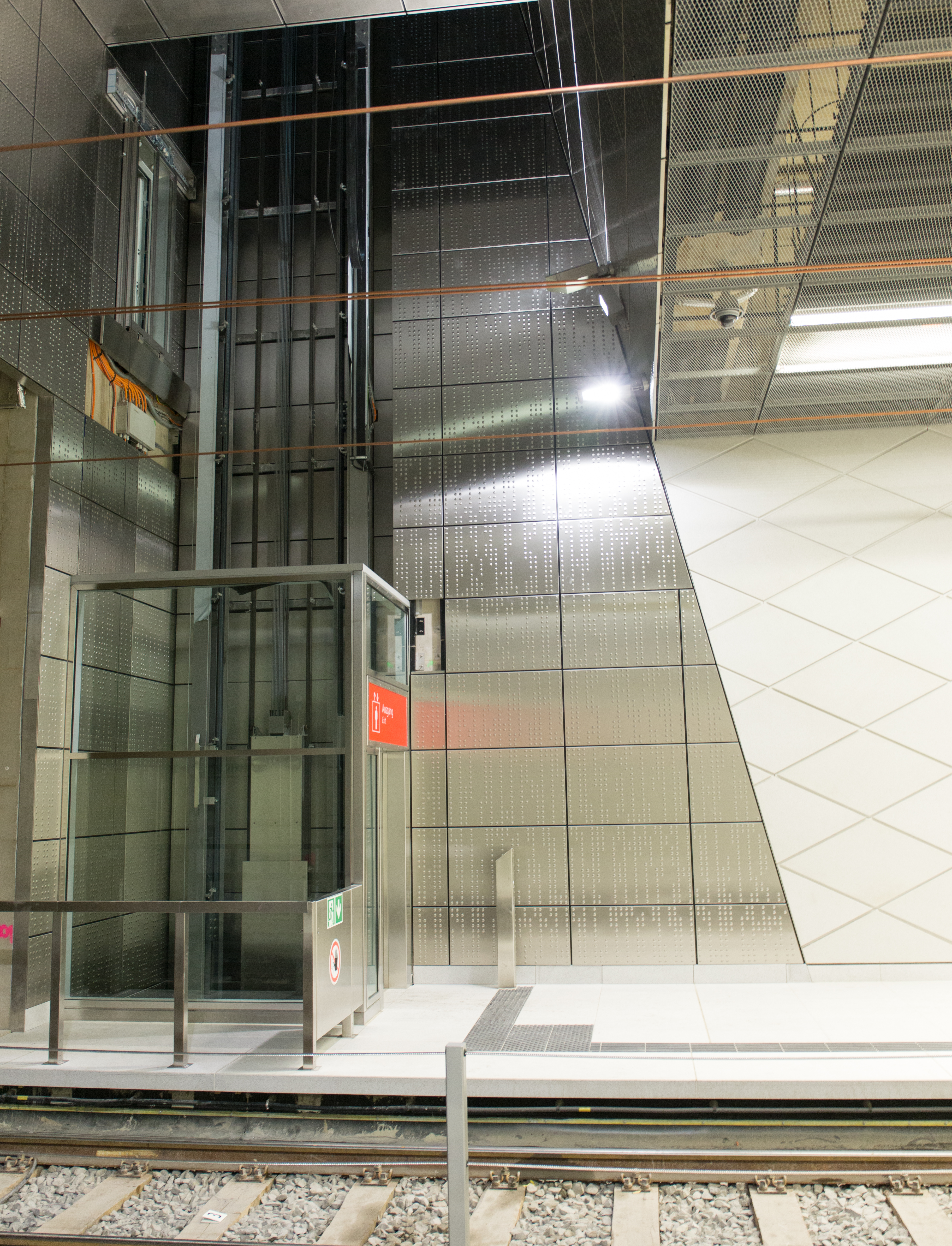 Wehrhahnlinie, U-Bahnhof Benrather Straße